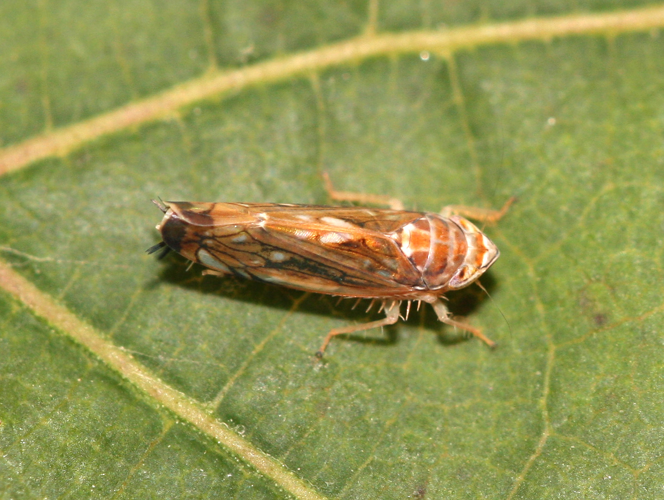 A Scaphoideus titanus female on a grapevine leaf, photographed in the lab of Fondazione Edmund Mach, Trentino, Italy.